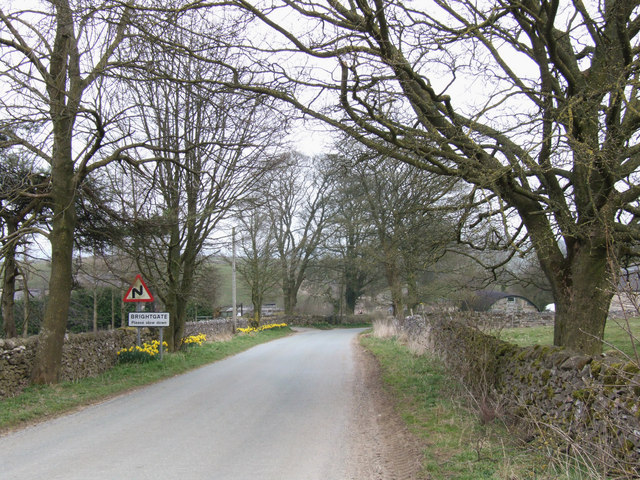 Brightgate. Entering the hamlet of Brightgate from Bonsall Moor.